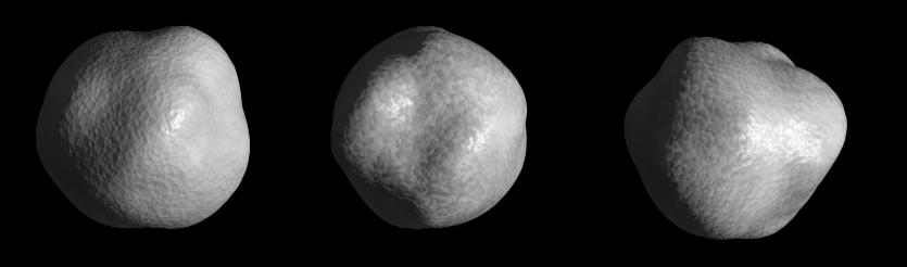 A 3D computer model of Asteroid 1998 KY26